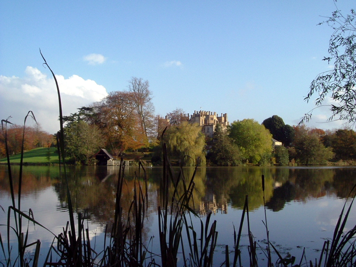 The gardens of Sherborne Castle, Dorset. Taken by Joe D October 30 en:2004.